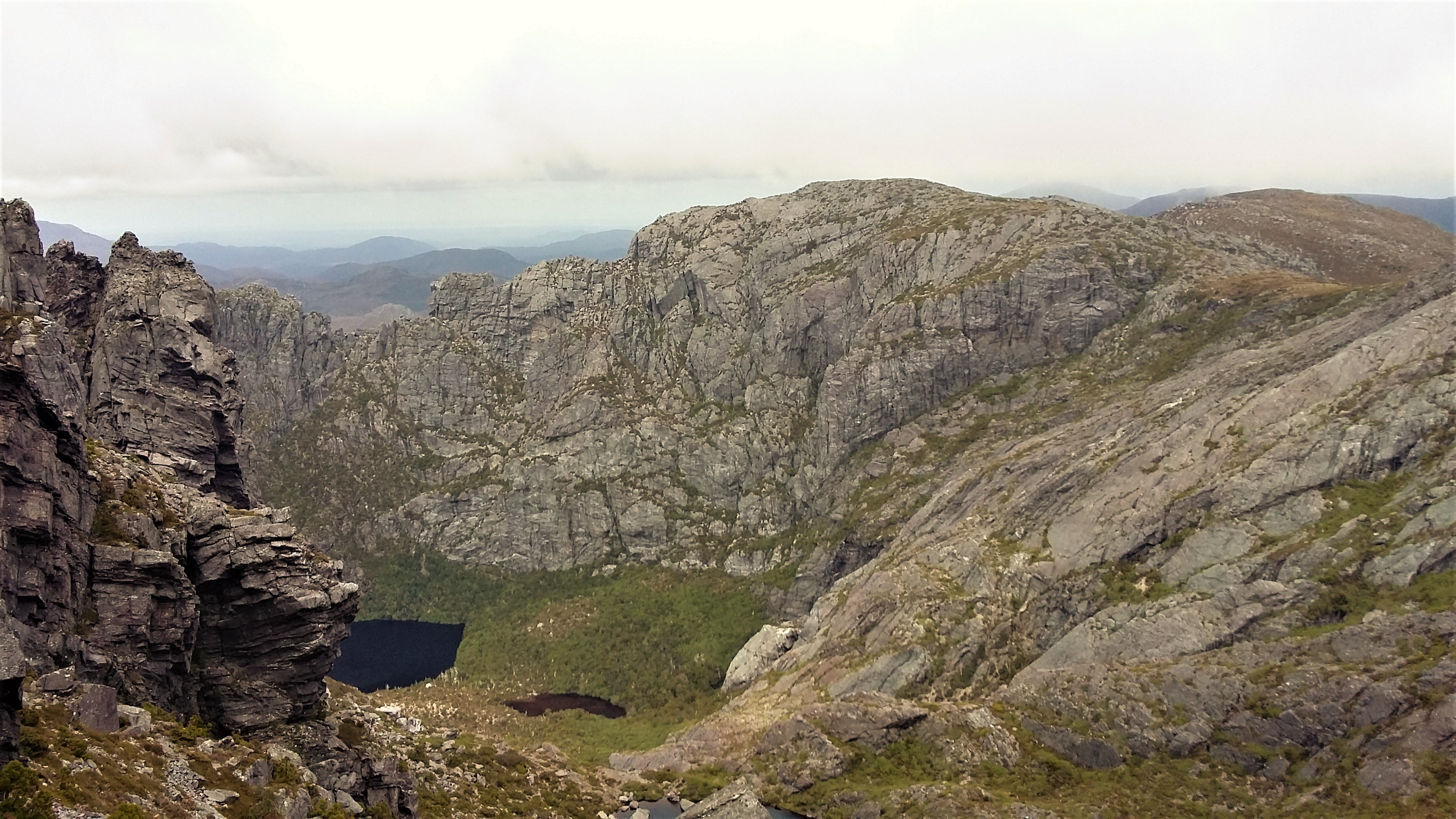 Looking down at the lakes near the Peak of Mount Murchison